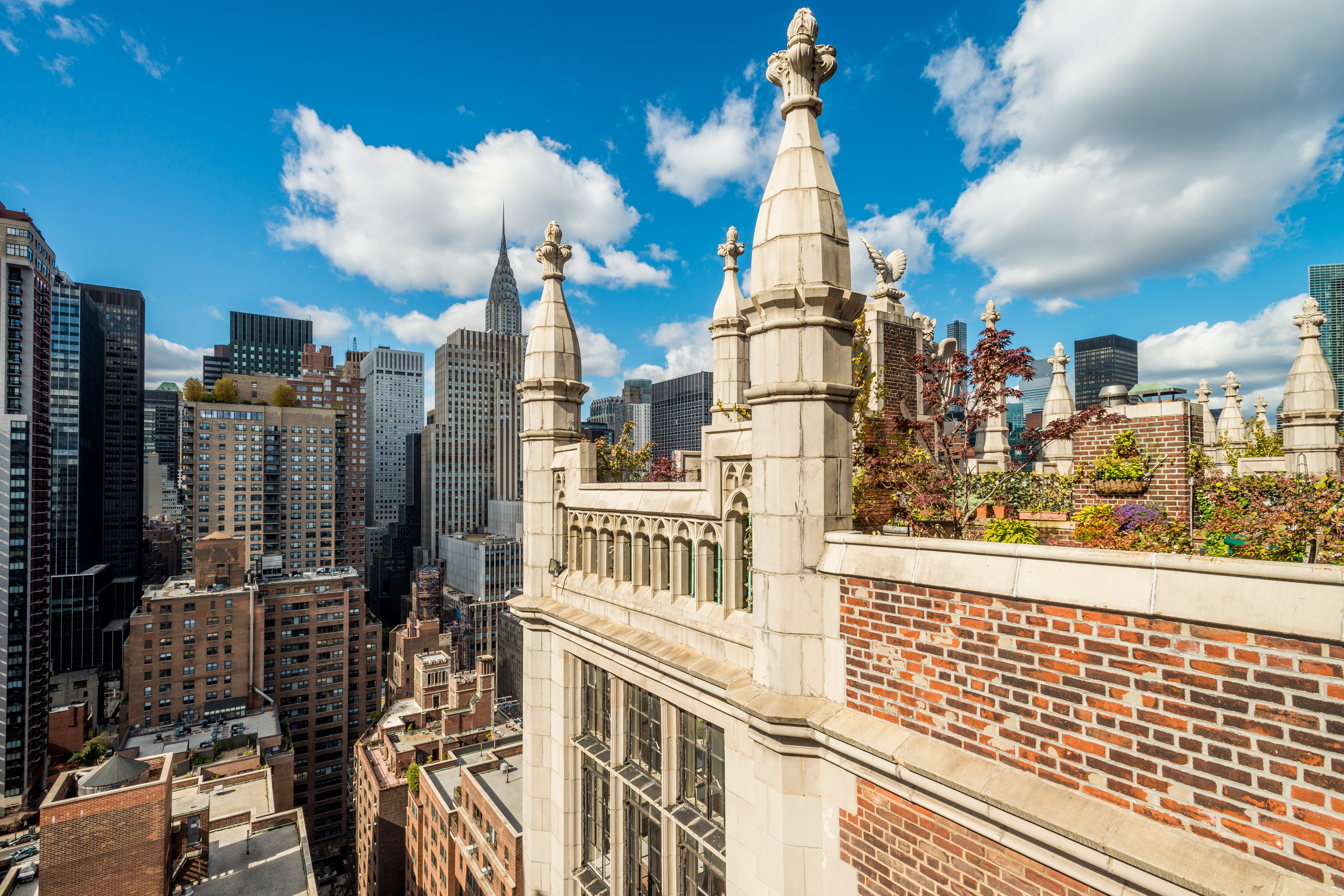 penthouse rooftop terrace at Windsor Tower, aka 5 Tudor City Place, looking west